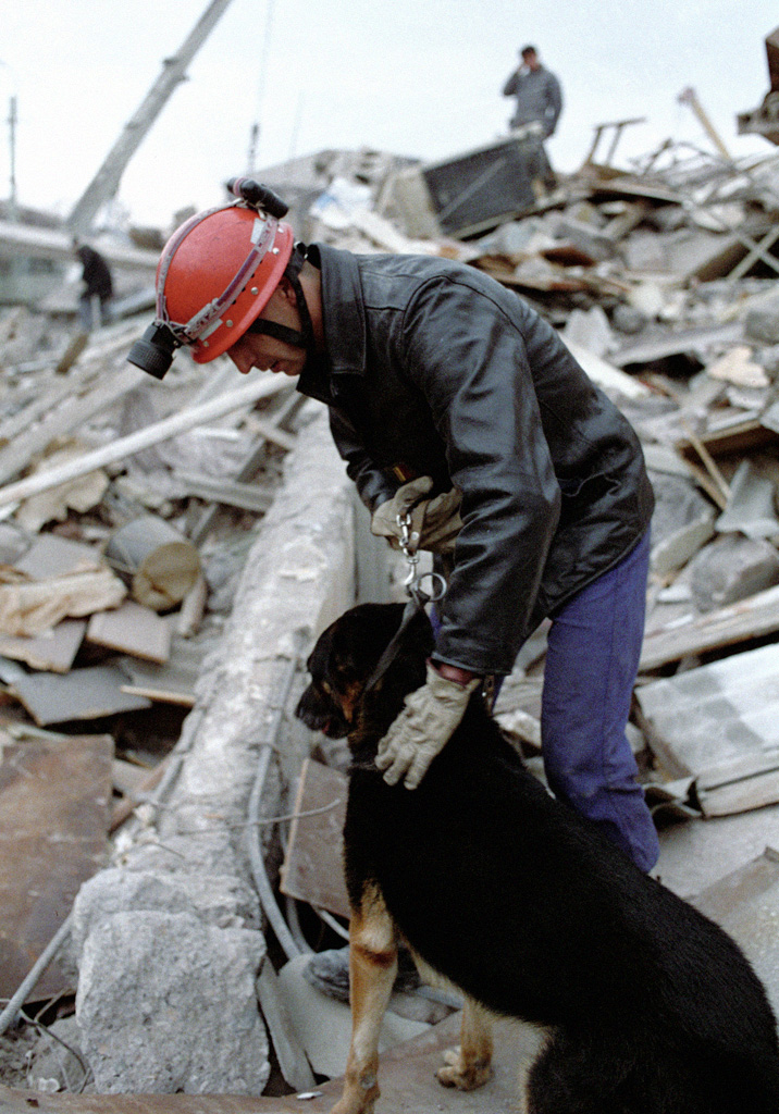 “Rescue squad”. A French rescuer with a dog searching for people under ruined houses. After a magnitude 10 earthquake.